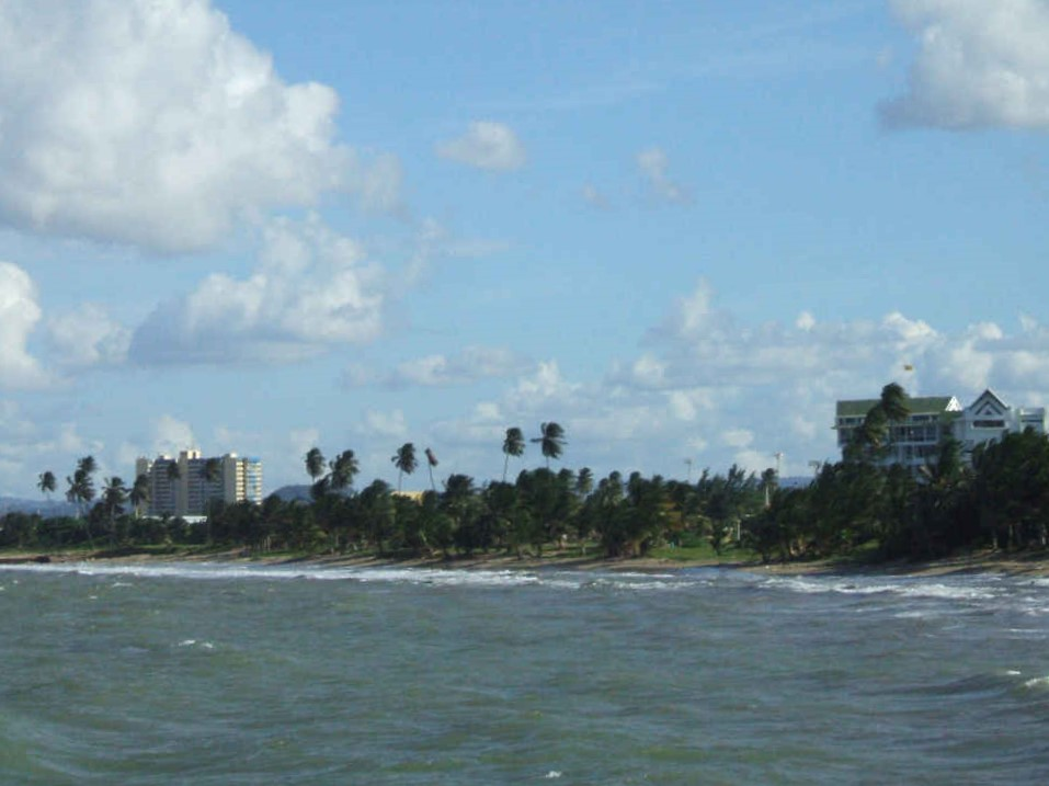 Levittown coastline showing the El Atlantico apartment building (left) and the Comfort Inn Levittown hotel (right), Levittown, Puerto Rico